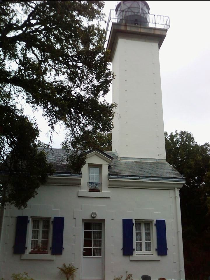 La Pointe des Dames lighthouse